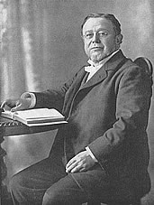 Rabbi Max Samfield, Temple Israel (Memphis, Tennessee)